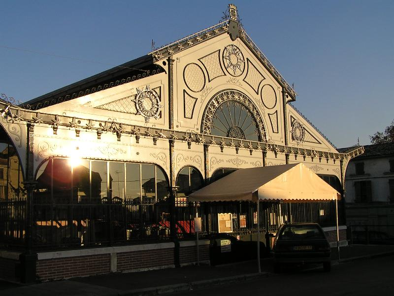 market hall in Jonzac, Charente-Maritime, France